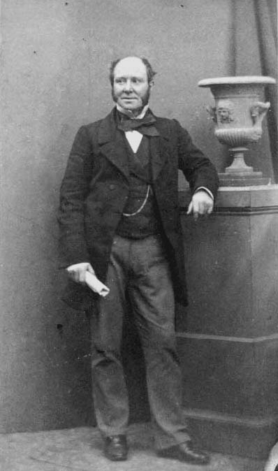 Portrait of ArthurKinnaird, 10th lord.